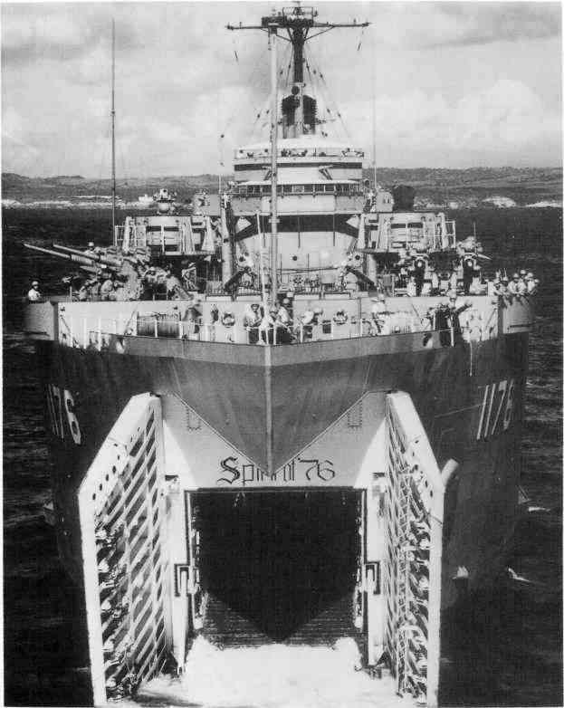 USS Graham County (LST-1176) beached at Vieques, Puerto Rico, in 1964. Note her bow door configuration, 3"/50 twin gun mounts, and radar-equipped gun directors. US Naval Historical Center. Official US Navy photo taken from